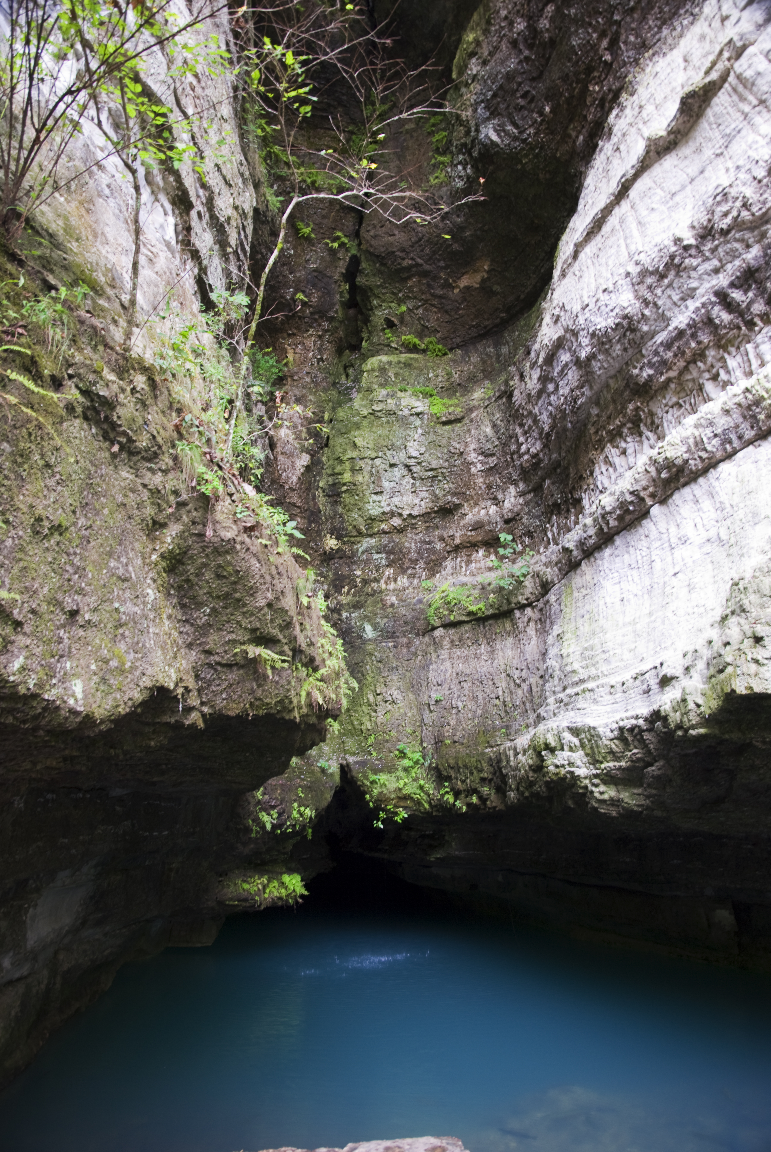 Roaring River Spring produces an average of 20.5 million gallons of freshwater daily. This photo was taken on August 28, 2009 in Missouri, US.